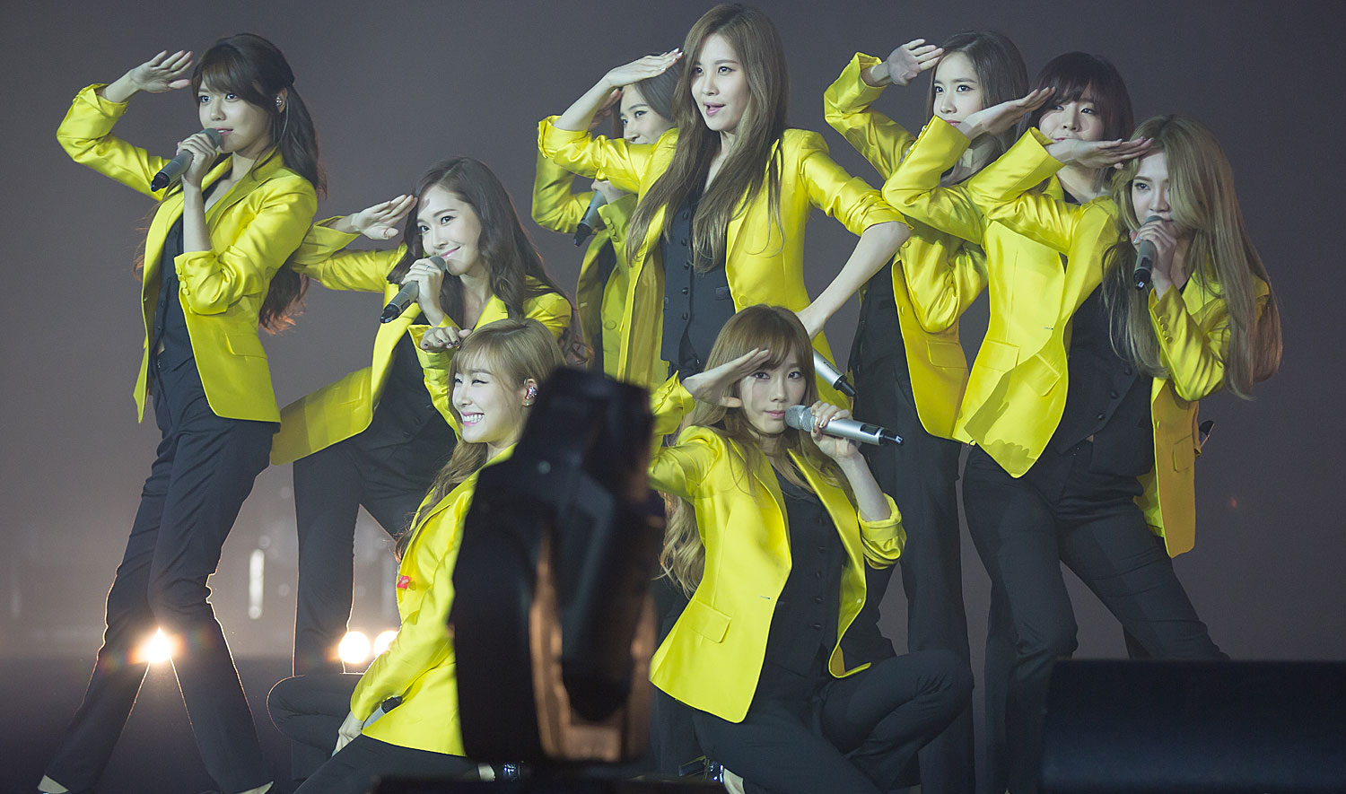 Girls' Generation at "Best of Best in Hong Kong" on August 2, 2014.